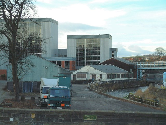 Cameron Bridge Distillery. This Diageo distillery is the birthplace of Cameron Brig pure grain whisky, and it is also where Gordons Gin, Smirnoff Vodka and other 'exotic' spirits are distilled